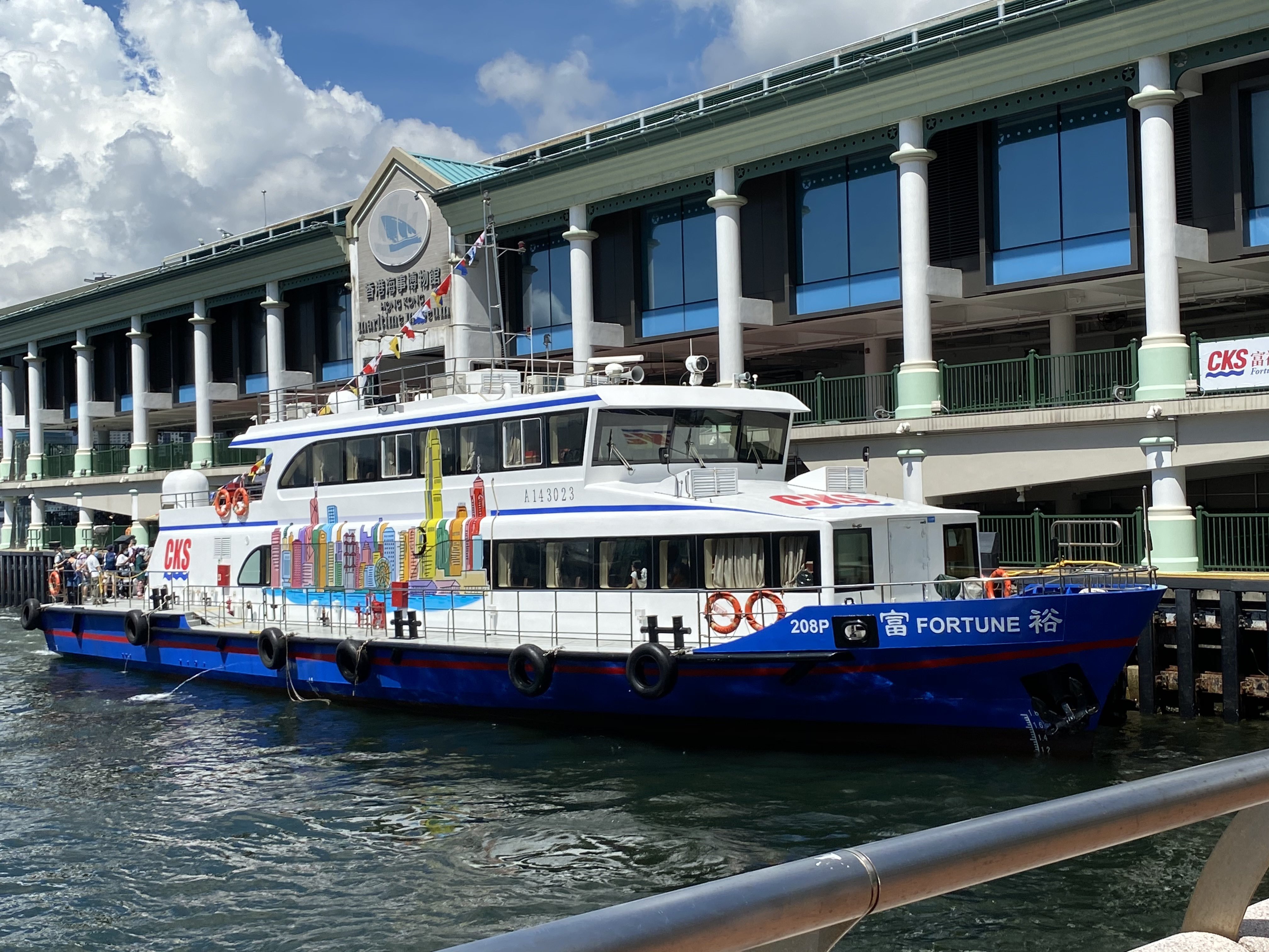 中文（香港）: This photo is taken in Central.